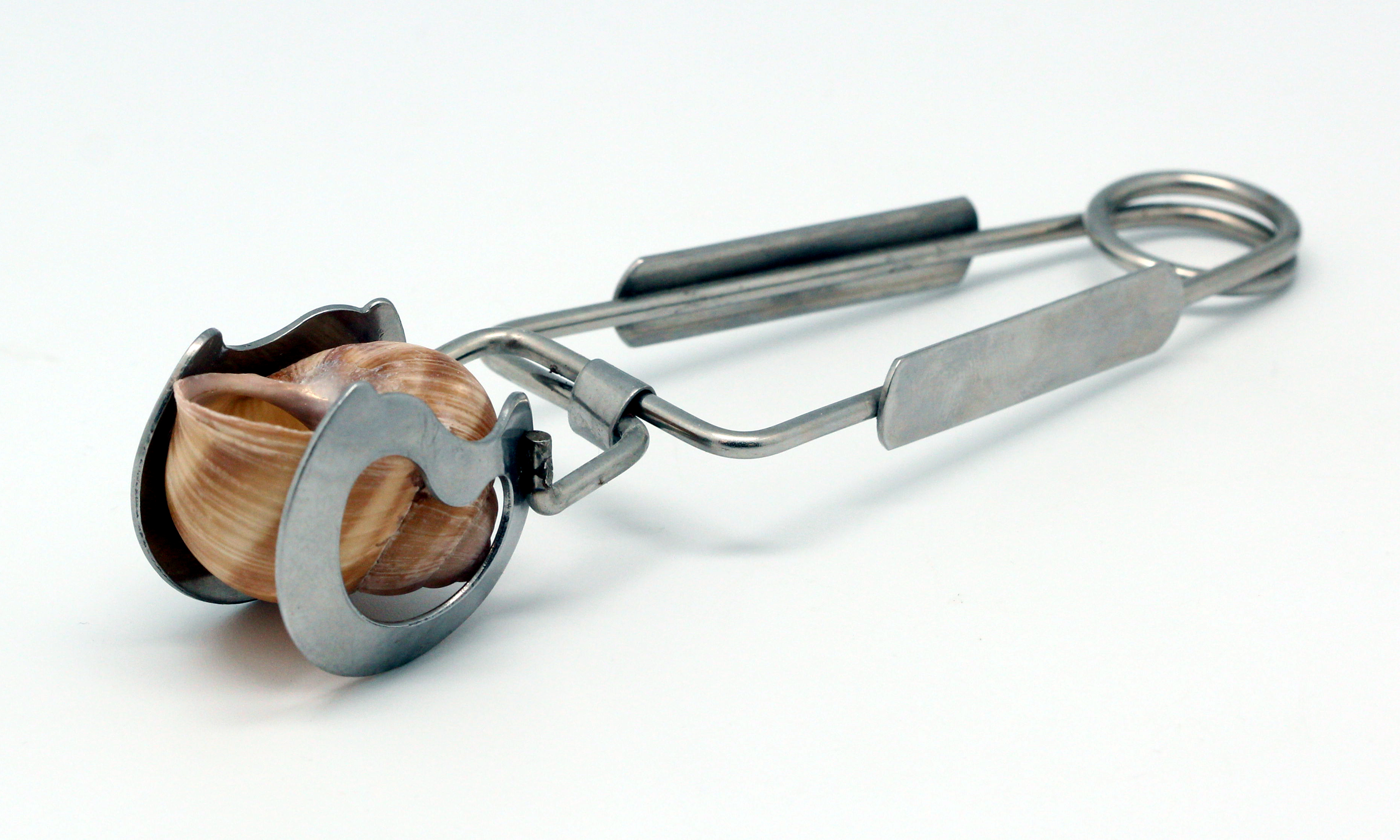 Escargot pincers. Picture taken during WikiGrenier evening in Wikimedia France offices March 26, 2015 in Paris, France.